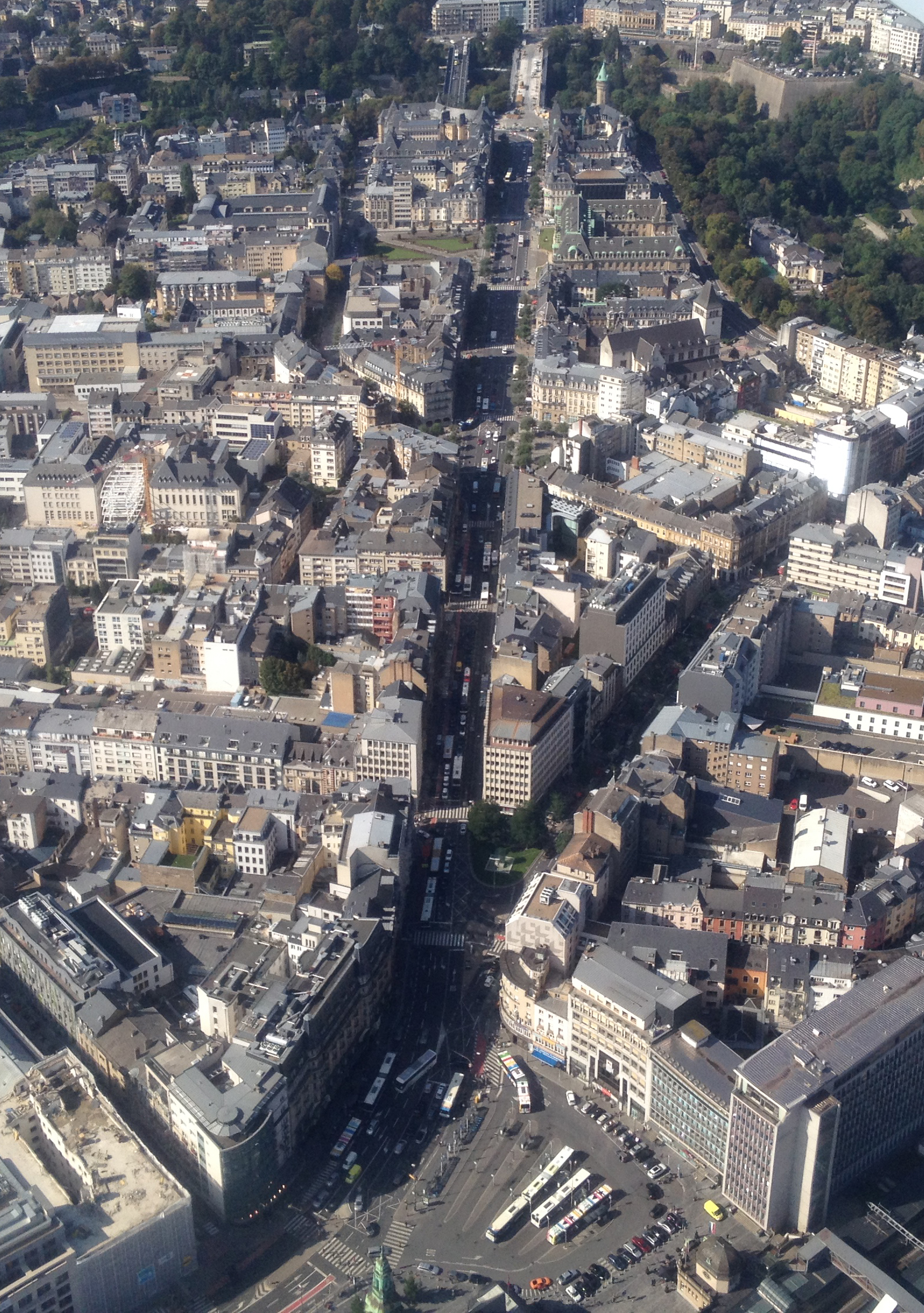 Aerial view of the neighbourhood around the main train station (Garer Quartier) in Luxembourg City in September 2014.